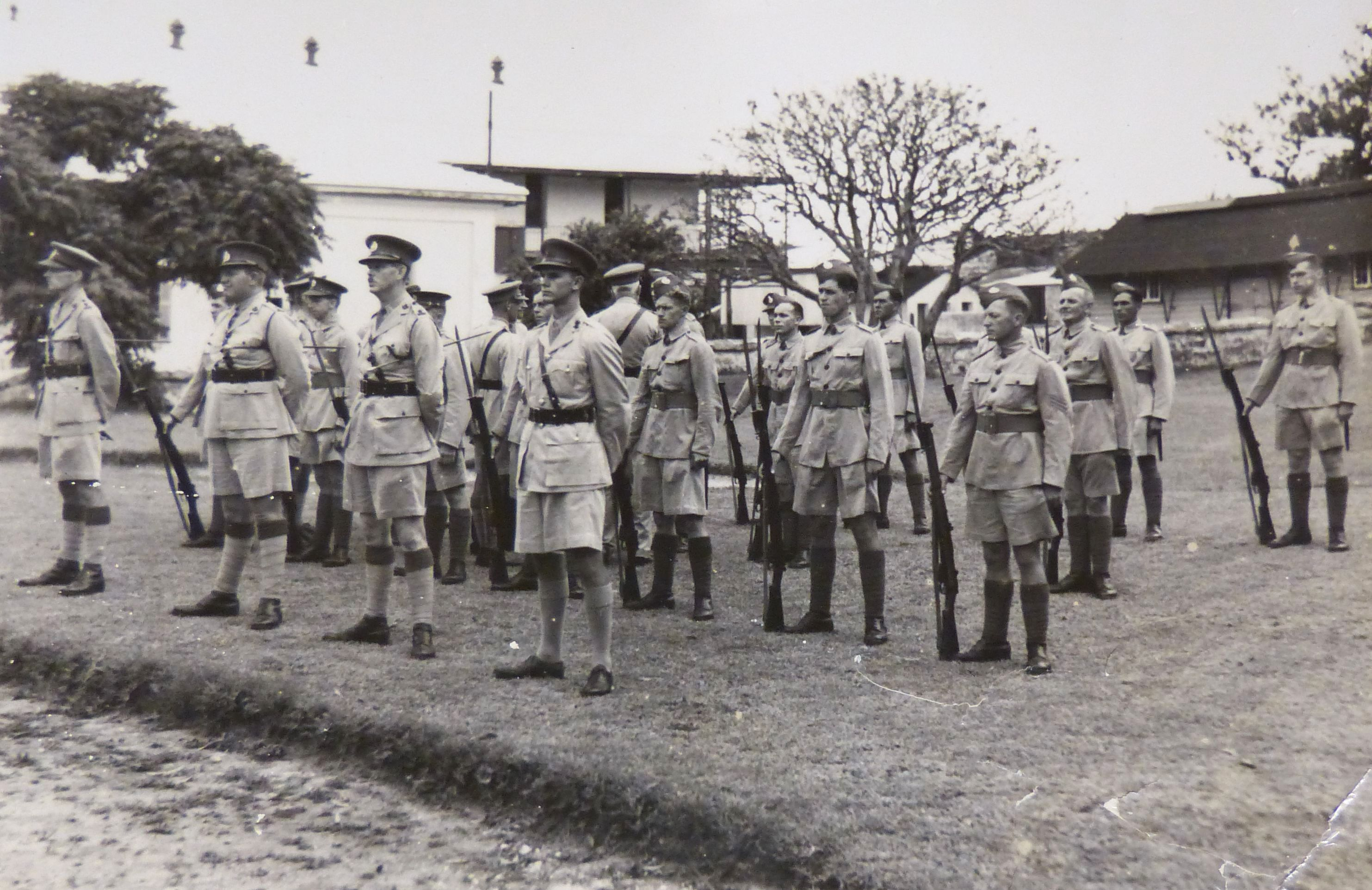 Governor of Bermuda and General Officer Commanding (GOC) the Bermuda Garrison, Lieutenant-General Sir Denis John Charles Kirwan Bernard, KCB, CMG, DSO, inspects the First Contingent of the Bermuda Volunteer Rifle Corps (BVRC) to the Lincolnshire Regiment at Prospect Camp on 22 June 1940. Personnel from the Bermuda Militia Artillery and the Bermuda Volunteer Engineers were attached to the contingent to travel to Britain where they separated to join their parent corps (the Royal Artillery and Royal Engineers, respectively). Accompanying the GOC is Lieutenant PAD Smith, BVRC, in command of the contingent. Officers in the front row (left to right): Lieutenant Anthony Frith Smith, BVRC; Lieutenant John Brownlow Tucker, BVRC; Lieutenant B. Abbott, BVRC; Lieutenant Patrick Lynn Purcell, BMA.